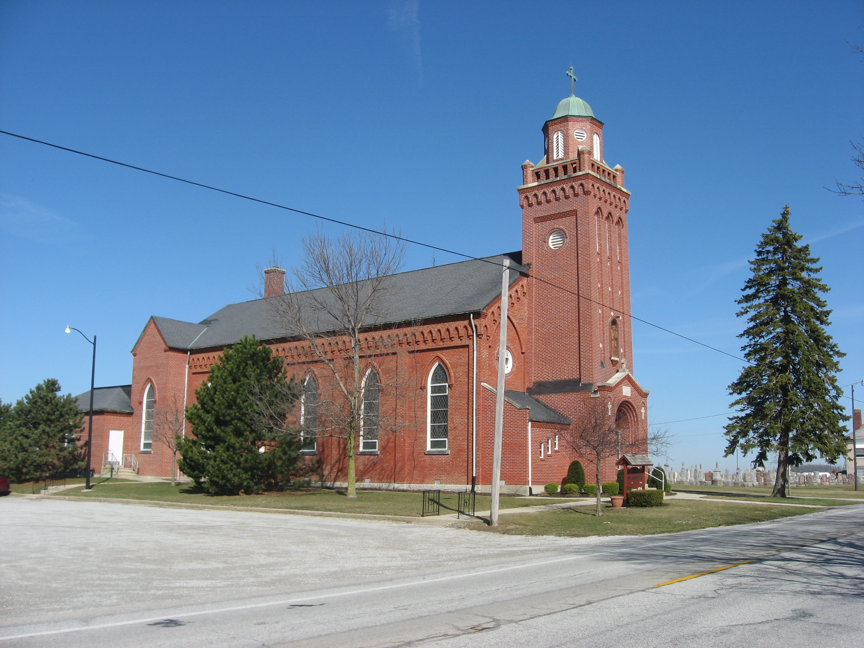 Southern side and front of St. Joseph's Catholic Church, located at the intersection of State Route 364 and Minster-Egypt Pike in Egypt, an unincorporated community west of Minster in Jackson Township, Auglaize County, Ohio, United States. The church (built in 1887) and its associated rectory (built in 1905) are listed together on the National Register of Historic Places as a part of the Cross-Tipped Churches of Ohio Thematic Resources.